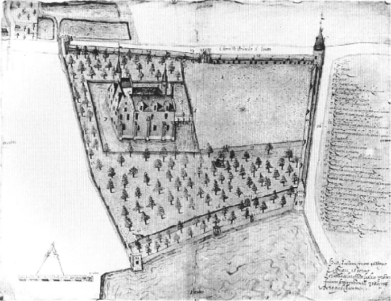 Former castle of the dukes of Brabant in Saint-Josse on a figurative plan in the Archives of the City of Brussels.